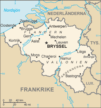 Map of Belgium, CIA factbook (taken from EN Wikipedia) A map of Belgium, converted directly from a map in GIF format from the CIA World Factbook. *French version here : image:Be-map-fr.png *Japanese version here : image:Be-map-jp.png